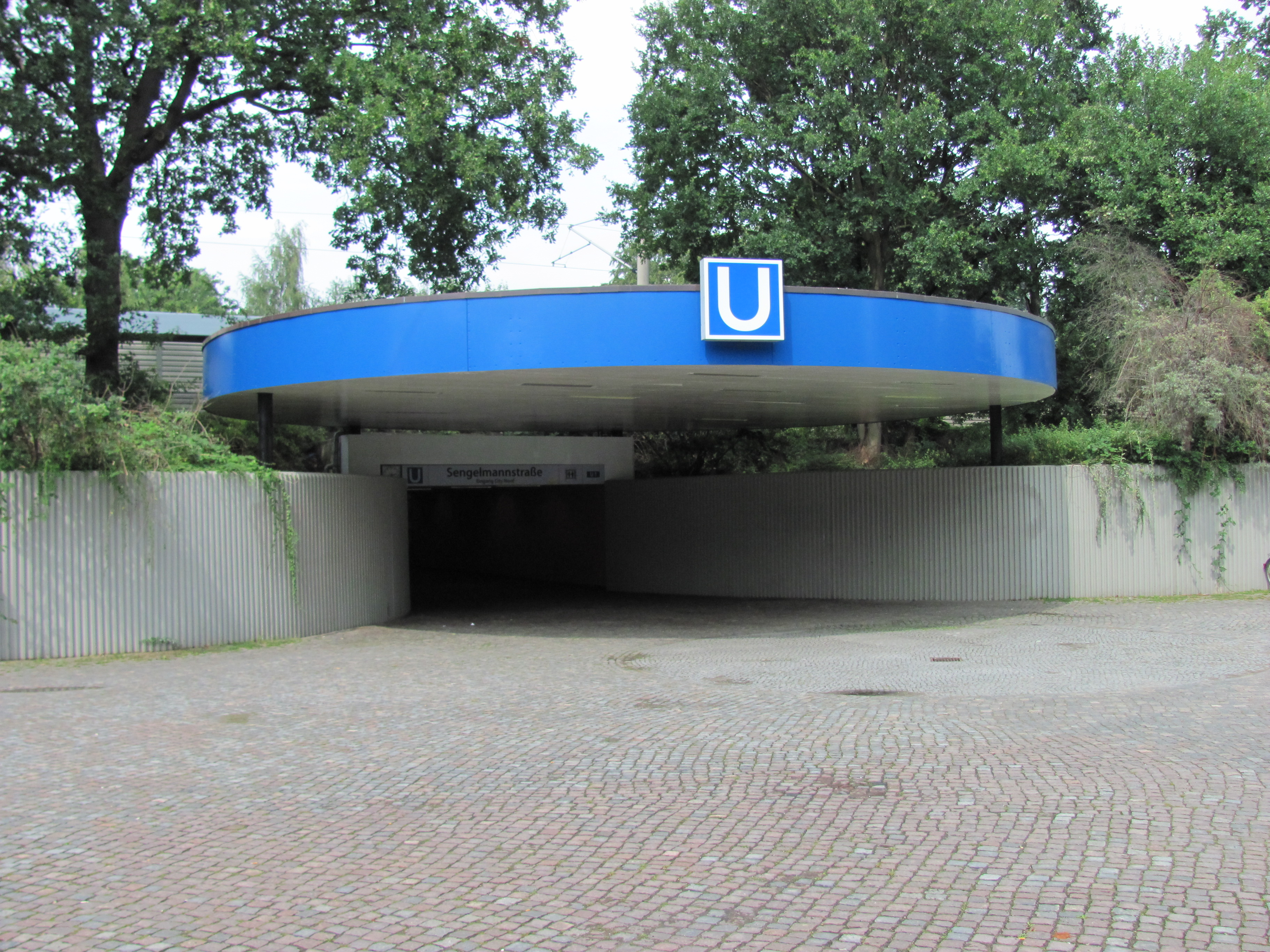 U-Bahn station Sengelmannstraße in Hamburg, Germany